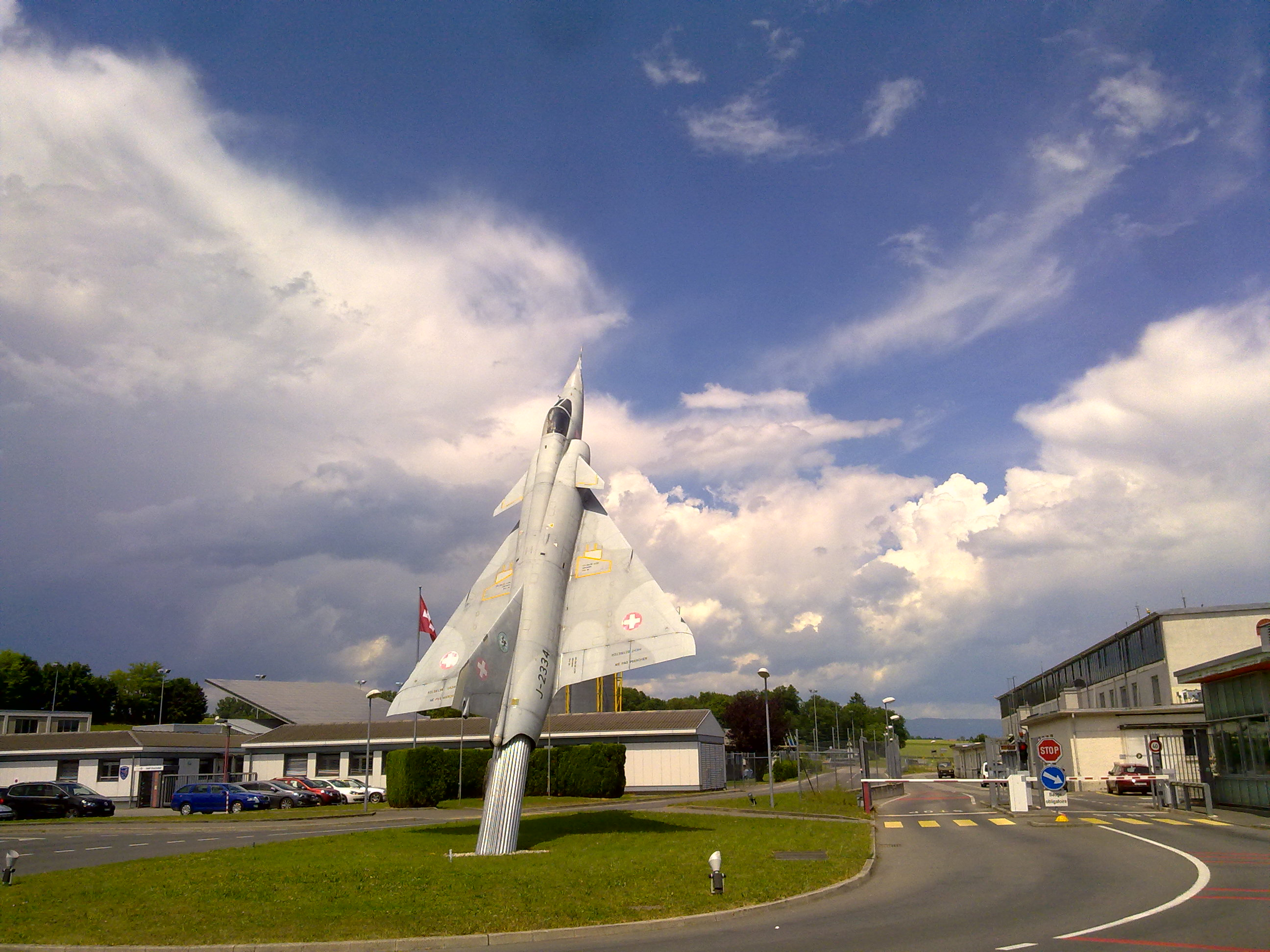 Payerne military airfield